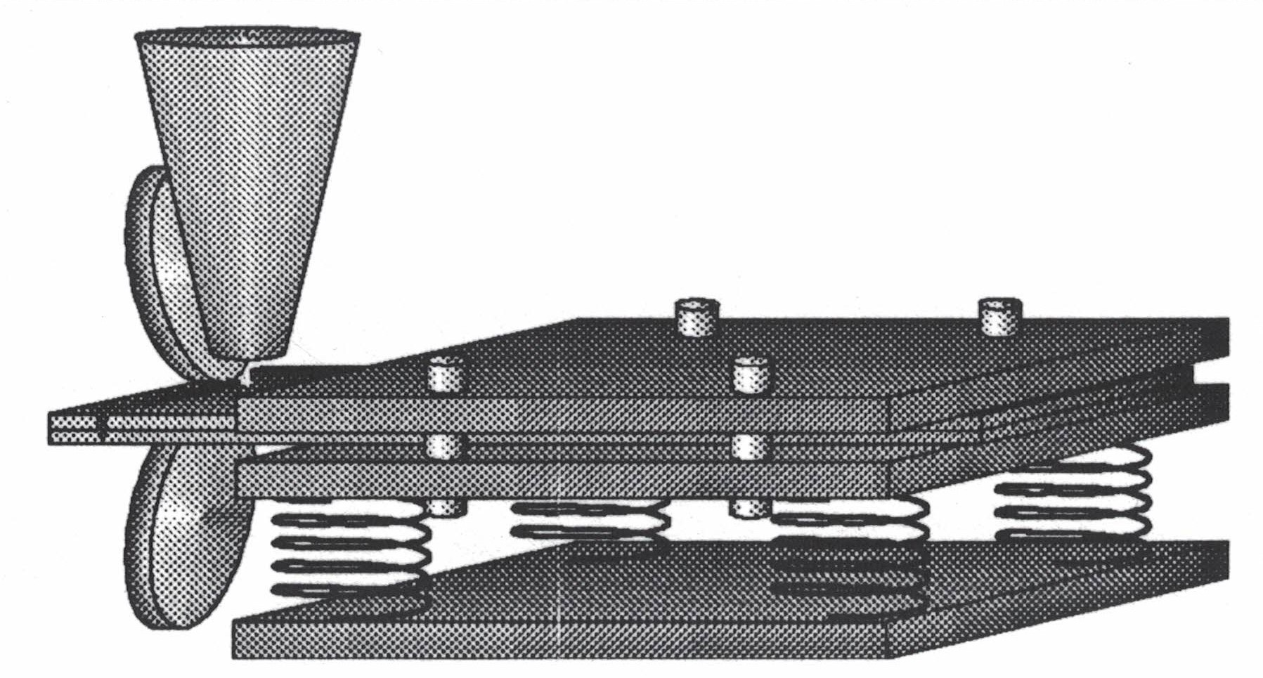 AluStir: Compliant mechanisms in laser material processing. The laser robot presses the workpiece by rollers into the appropriate Position. The springs of the complian jig are between the table and the fixture.